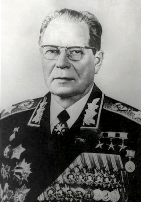 Soviet Defence Minister Dmitry Ustinov